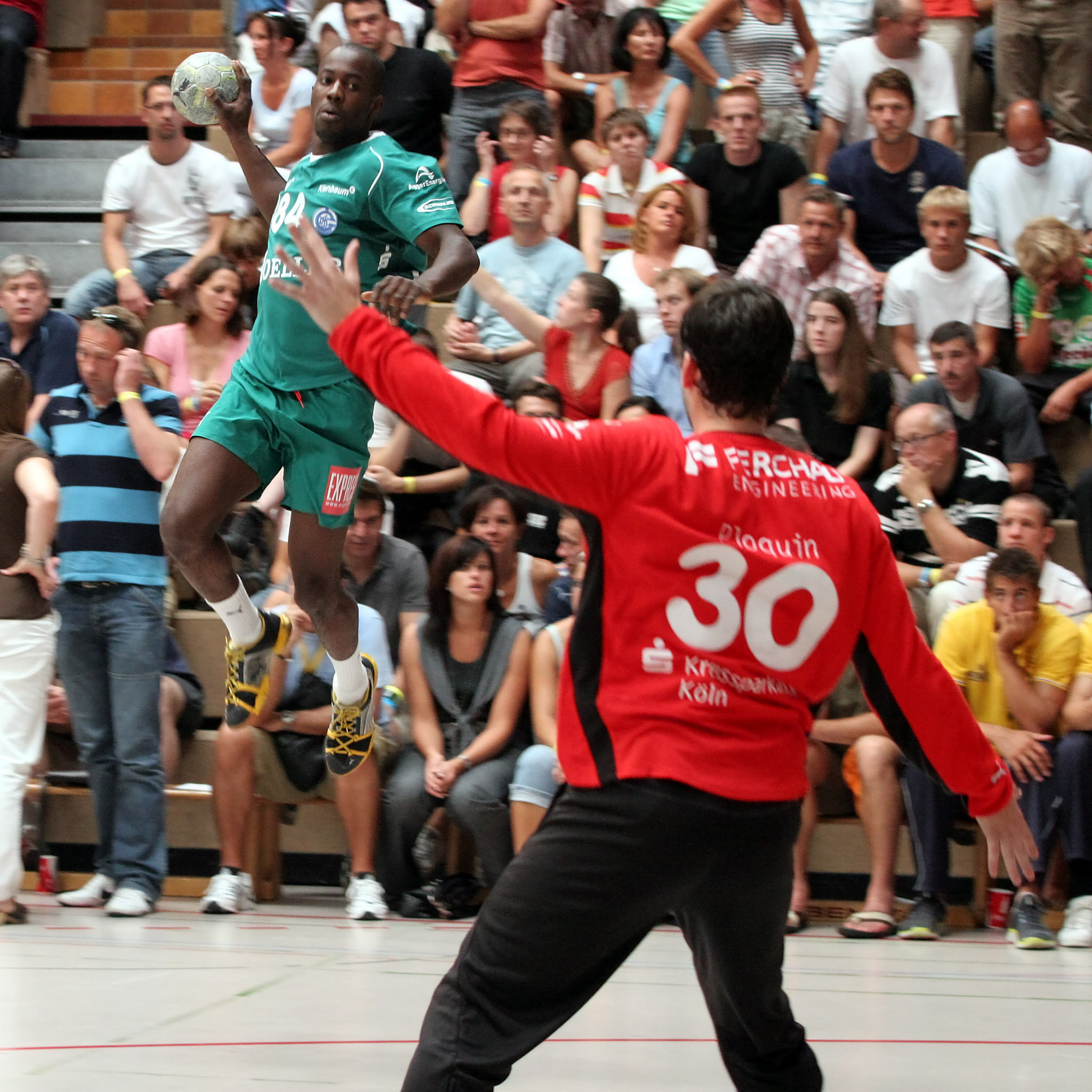 Audray Tuzolana, handball player from VfL Gummersbach (Germany), during the Schlecker Cup 2008 in Ehingen (Germany)